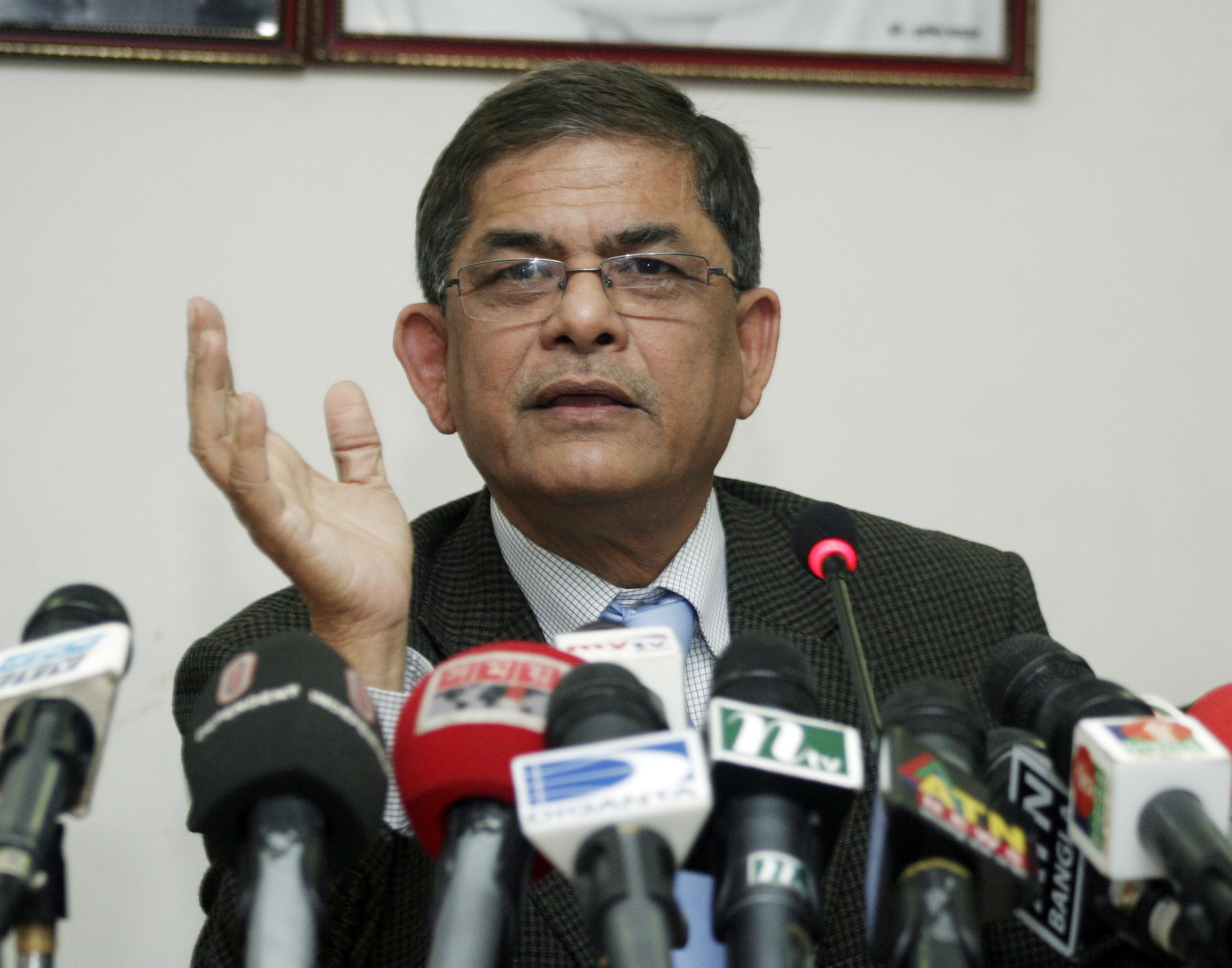 BNP politician Mirza Fakhrul Islam Alamgir